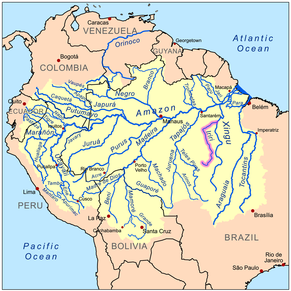 This is a map of the Amazon River drainage basin with the Iriri River highlighted.